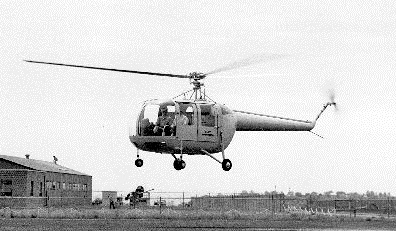 Sikorsky YH-18A helicopter, military version of the S-52, undergoing evaluation by the United States Army in 1950.